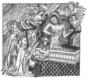 Henry V of England shown kneeling before an image of the Man of Sorrows. He is thus assimilated to the legend of the Mass of Saint Gregory. He is The author comments: "This is taken from Manuscript Royal 2 b. 1 at the British Museum, which belonged to Humphrey Duke of Gloucester, and must be older than 1426. It probably commemorates the young King's devotion to that special form of of Eucharistic symbolism which is exemplified also in The Mass of St Gregory."